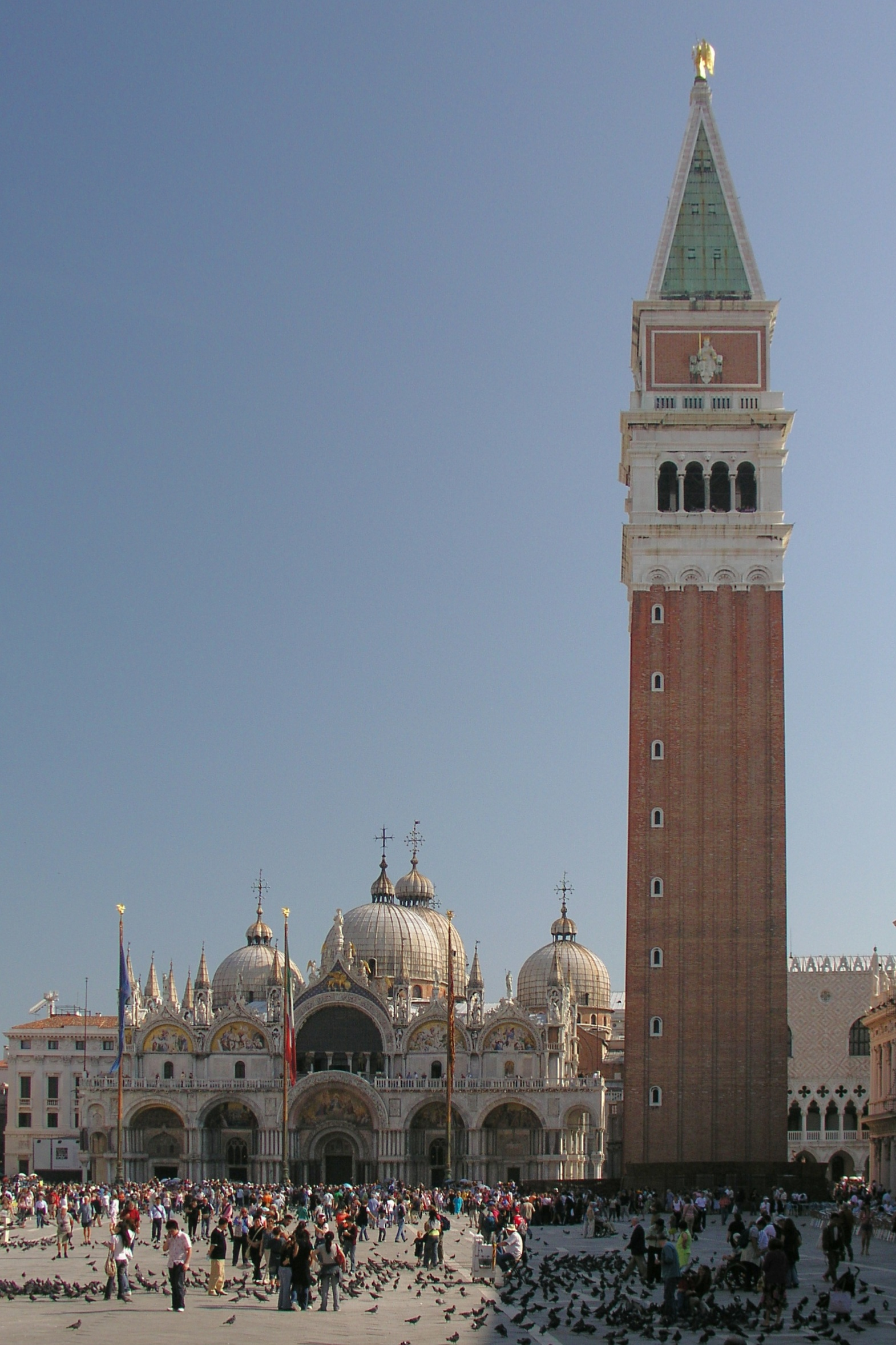 San Marco, Venice, Italy